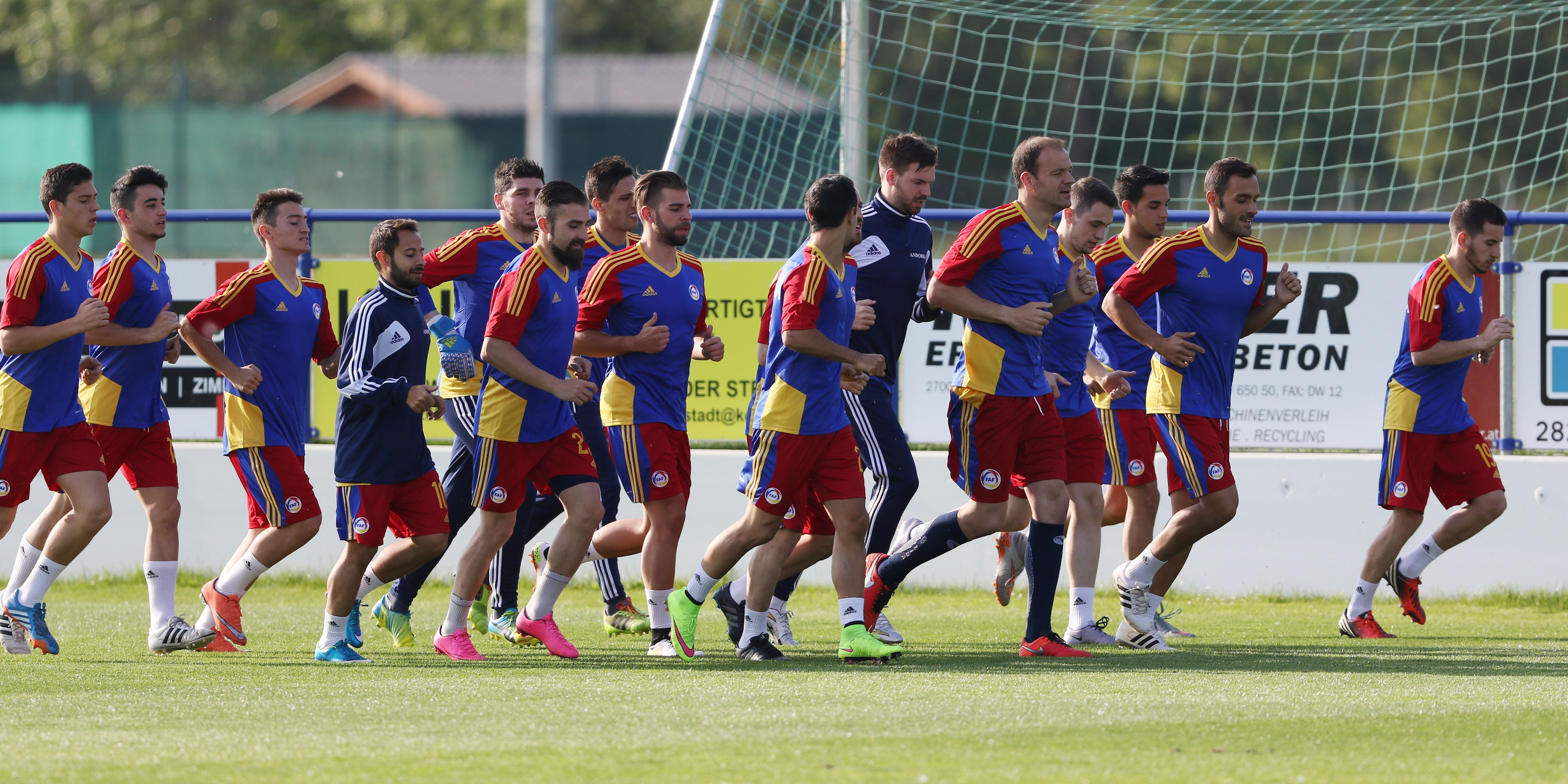 Training of the Andorra national football team at 25-05-2016 in Bad Erlach (Austria. – The photo shows the warm up of the Andorra national football team.